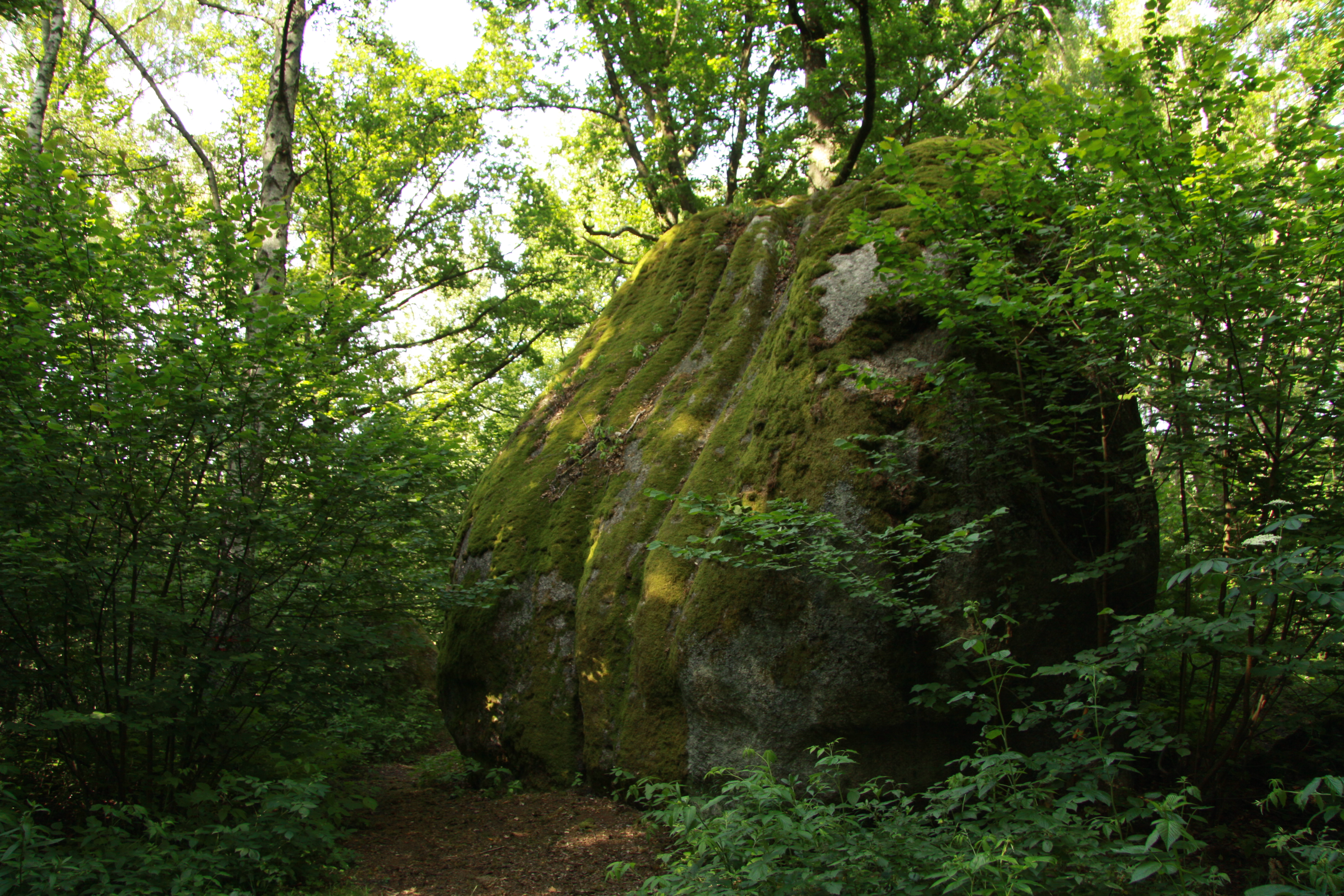 Natural monument Kynžvartský kámen near Lázně Kynžvart town in Cheb District, Czech Republic